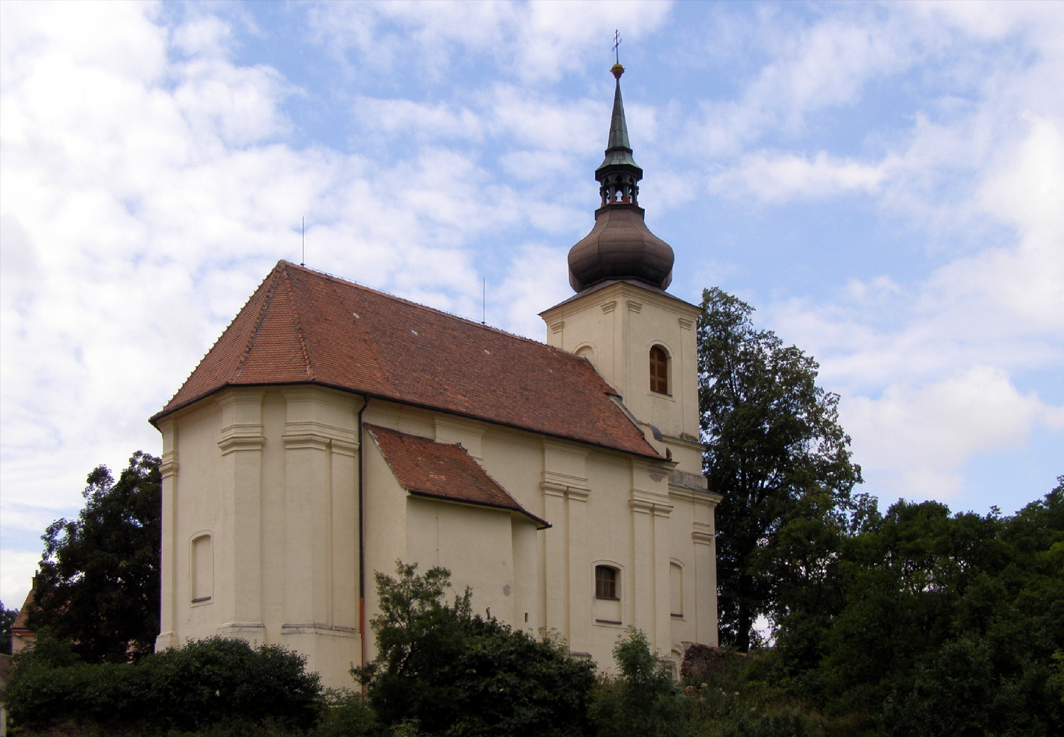 Lukov village. Saint John the Baptist church